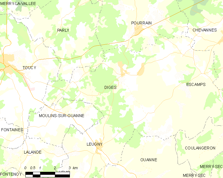 Map of French municipality Diges